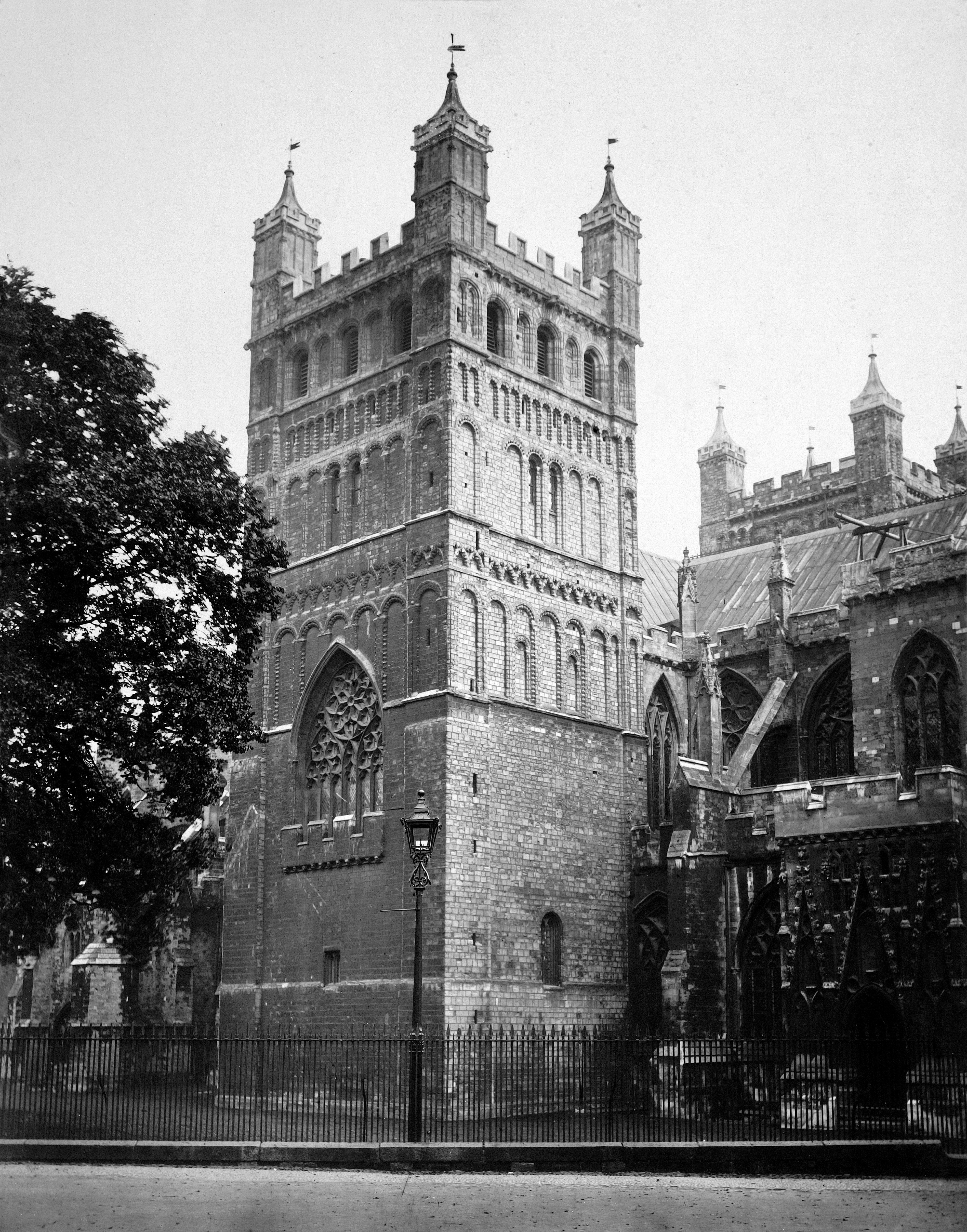 Exeter Cathedral. The Northwest Tower by Francis Bedford. Signed